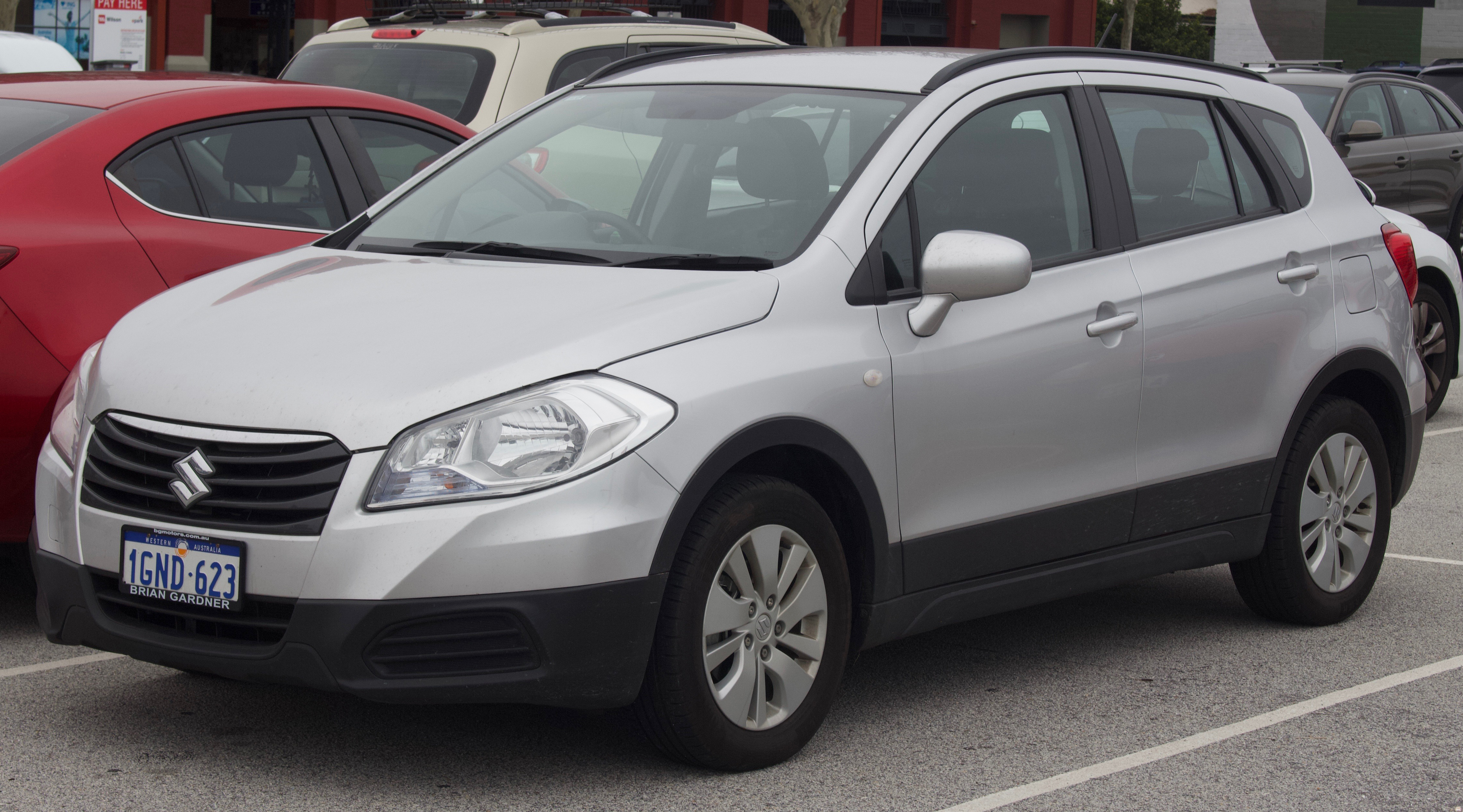 2013-2016 Suzuki SX4 (JY) GL wagon. Photographed in Fremantle, Western Australia, Australia.